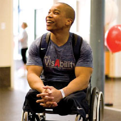 Rohan Murphy at Conference